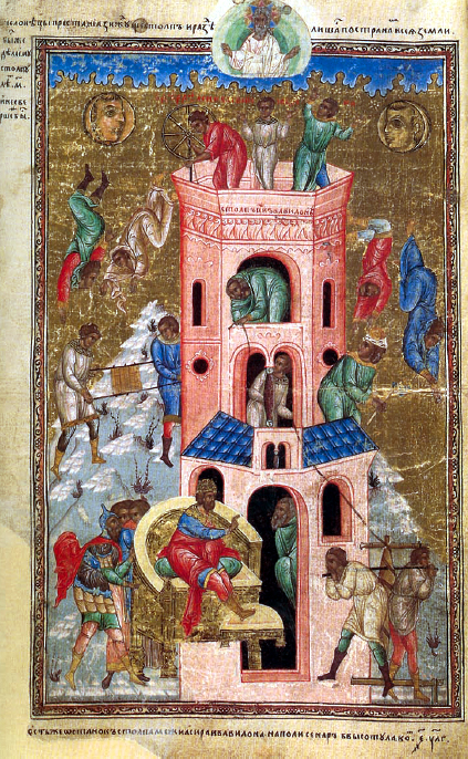 The Tower of Babel, from a Russian manuscript of Cosmas Indicopleustes